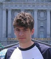 A cropped picture of the asexual activist David Jay